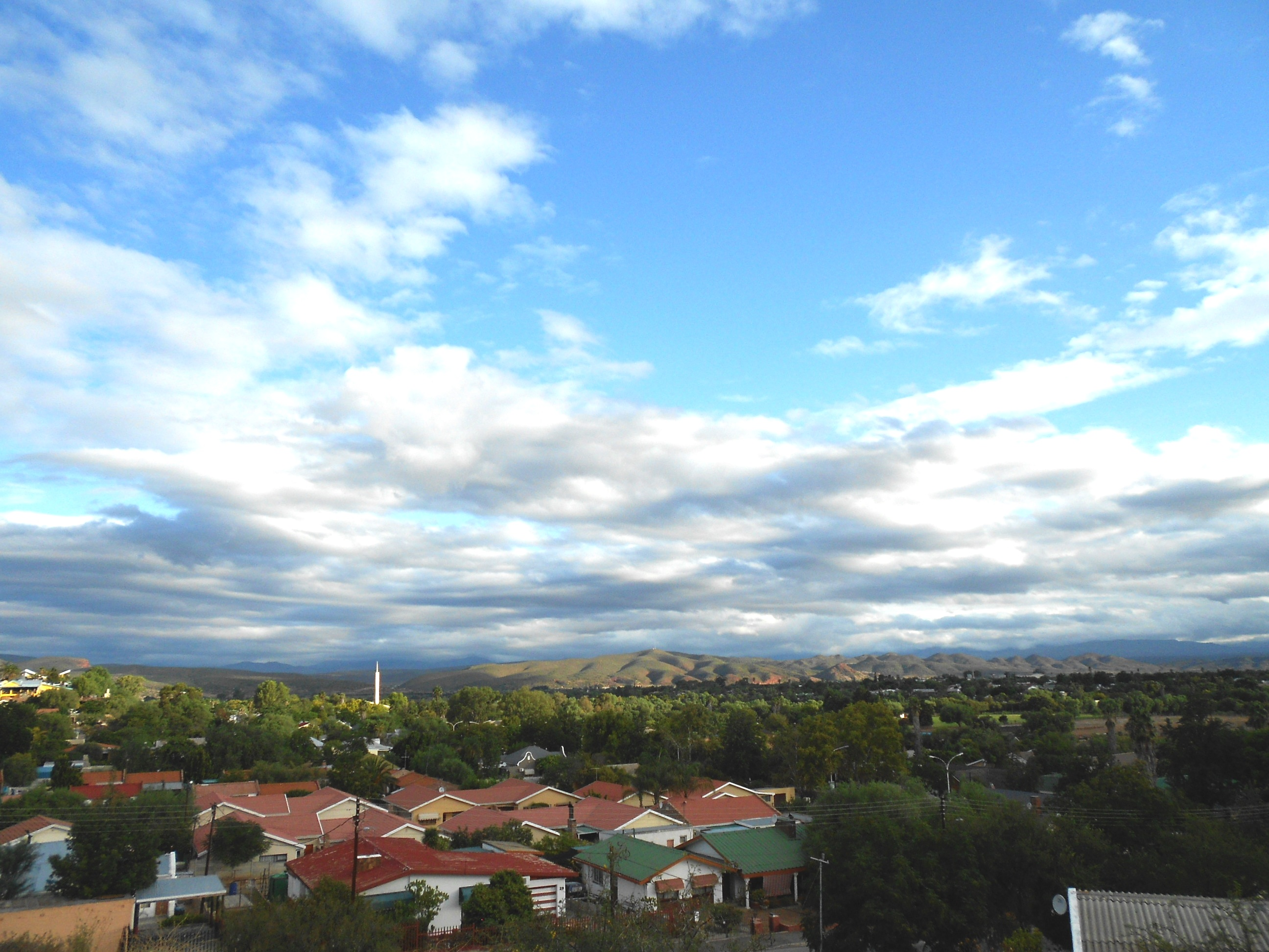 View of Oudtshoorn, South Africa